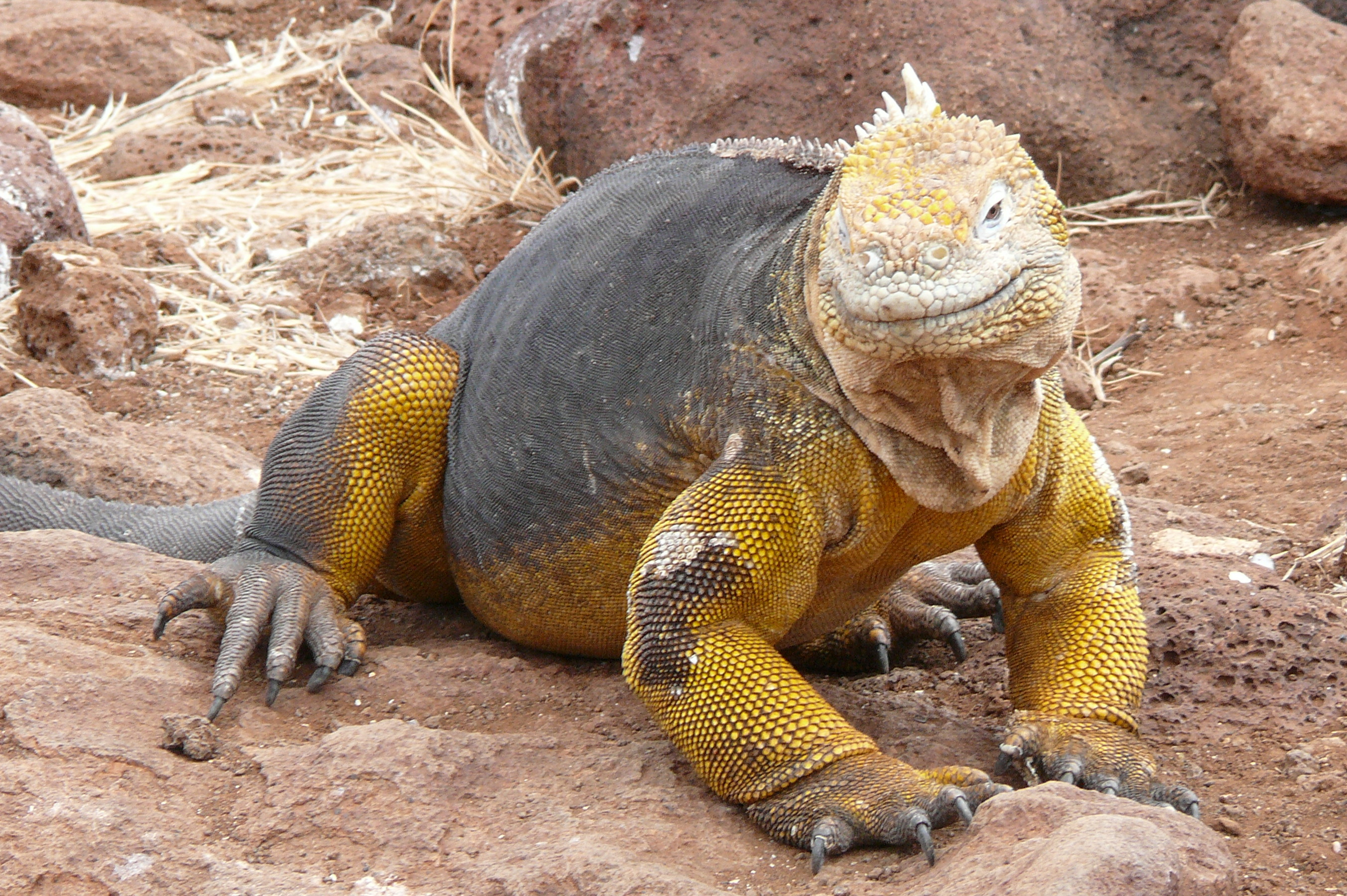 Galapagos Land Iguana (Conolophus subcristatus)